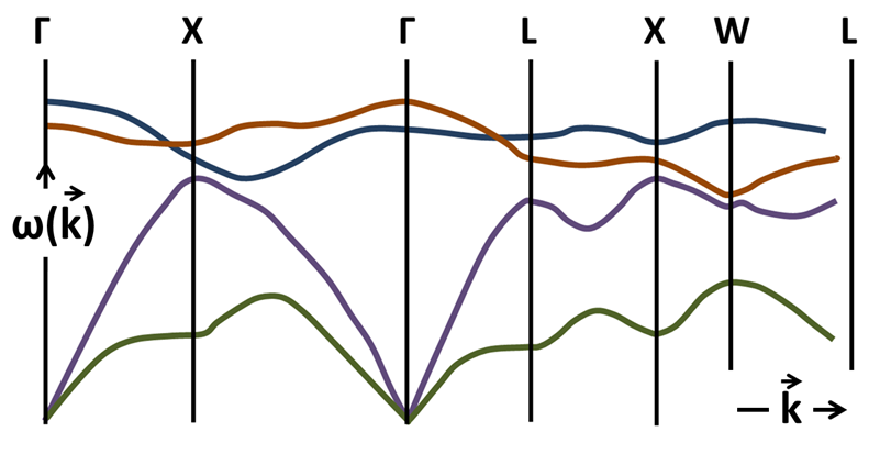 Phonon dispersion relations in GaAs patterned after Peter Y. Yu, Manuel Cardona (2010) "Fig. 3.2: Phonon dispersion curves in GaAs along high-symmetry axes" in Fundamentals of Semiconductors: Physics and Materials Properties (4th ed.), Springer, p. 111 ISBN: 3642007090.